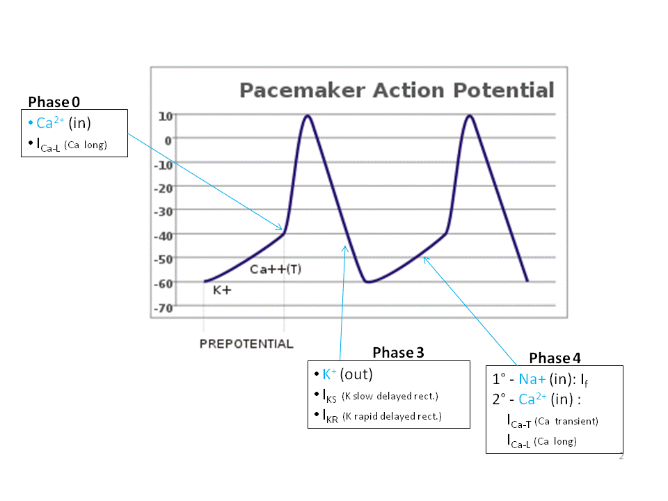 == Action potential in pacemaker cells in the heart